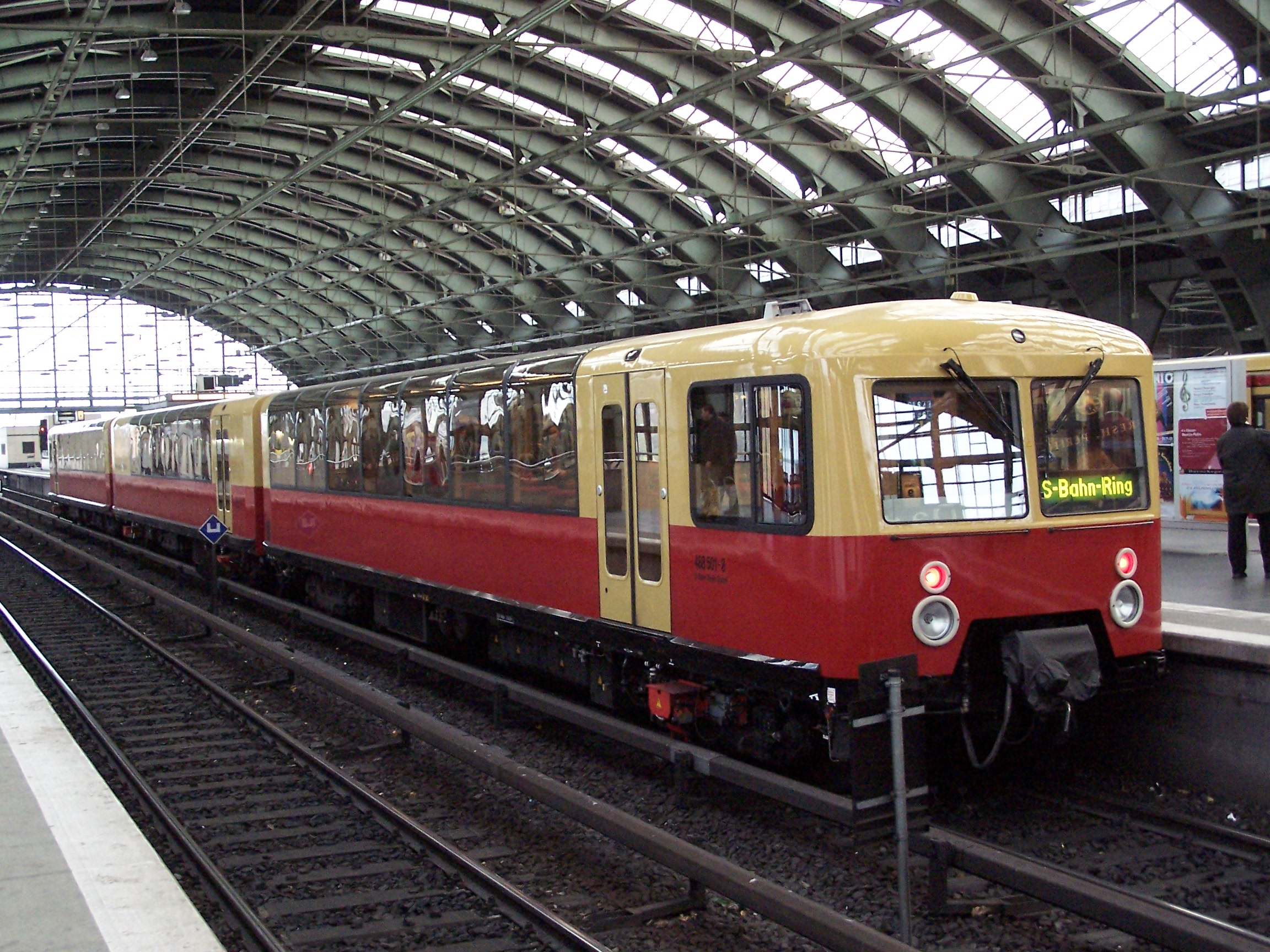 type 488 of the Berlin S-Bahn (panorama train) at Berlin Ostbahnhof